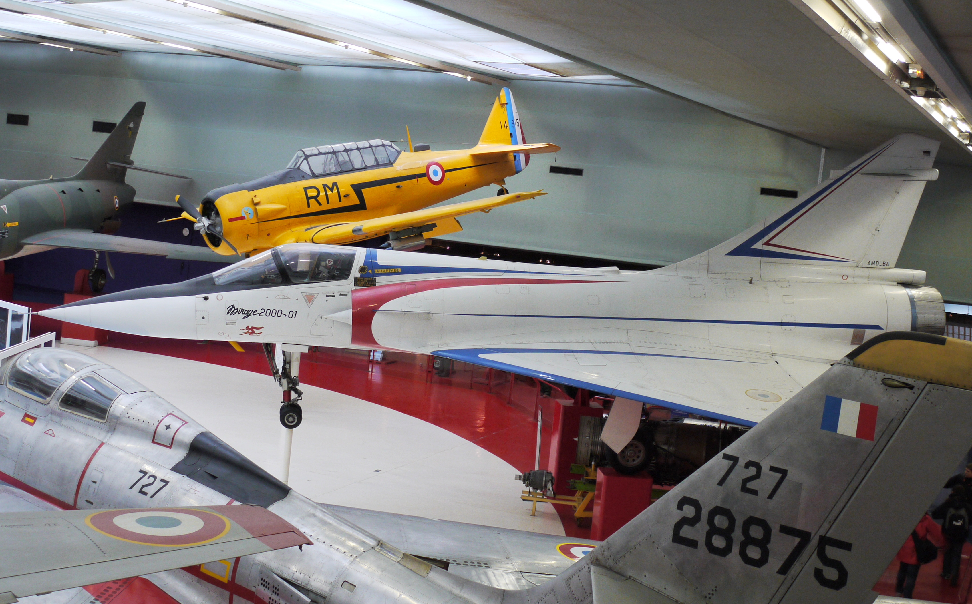 Fighter aircraft Mirage prototype 2000-01 (1961), Museum of Air and Space Paris, Le Bourget (France)